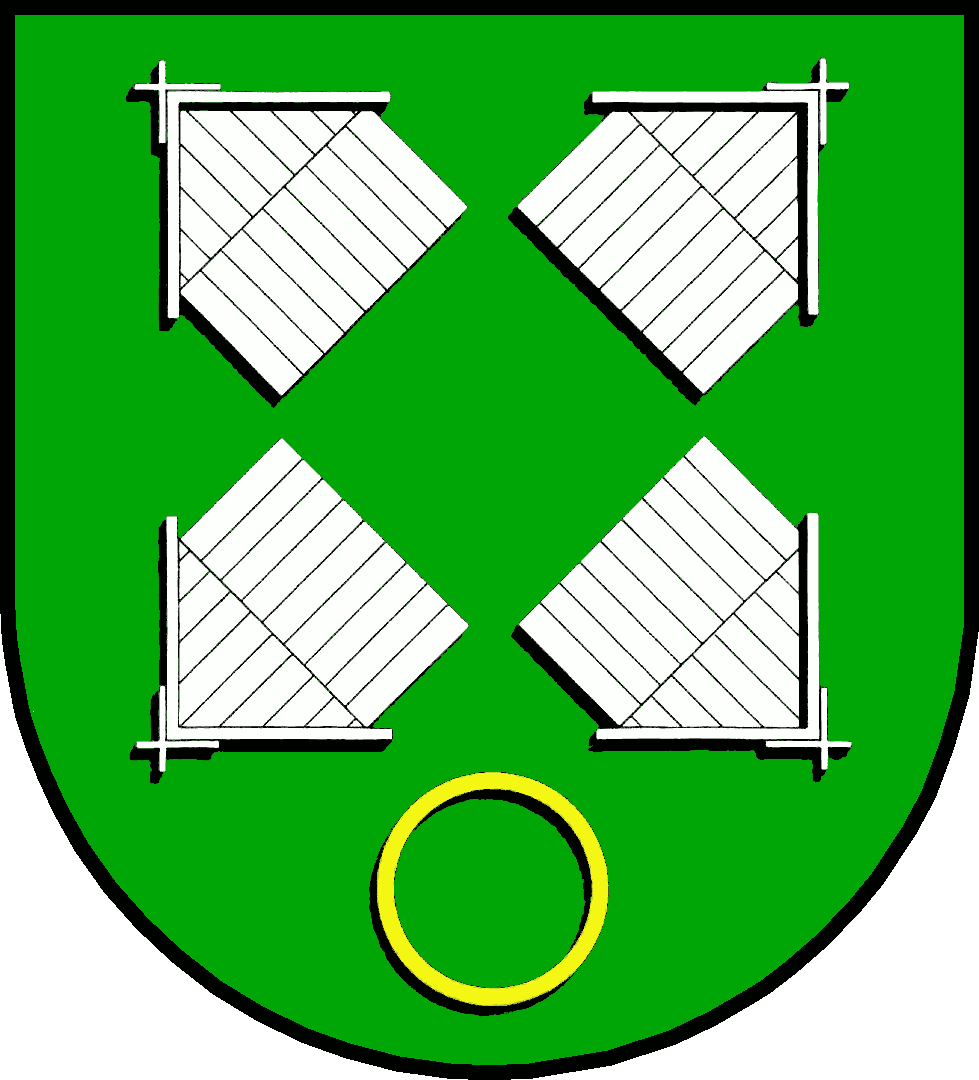 Coat of arms of the municipality Oldenborstel in Schleswig-Holstein, Germany.